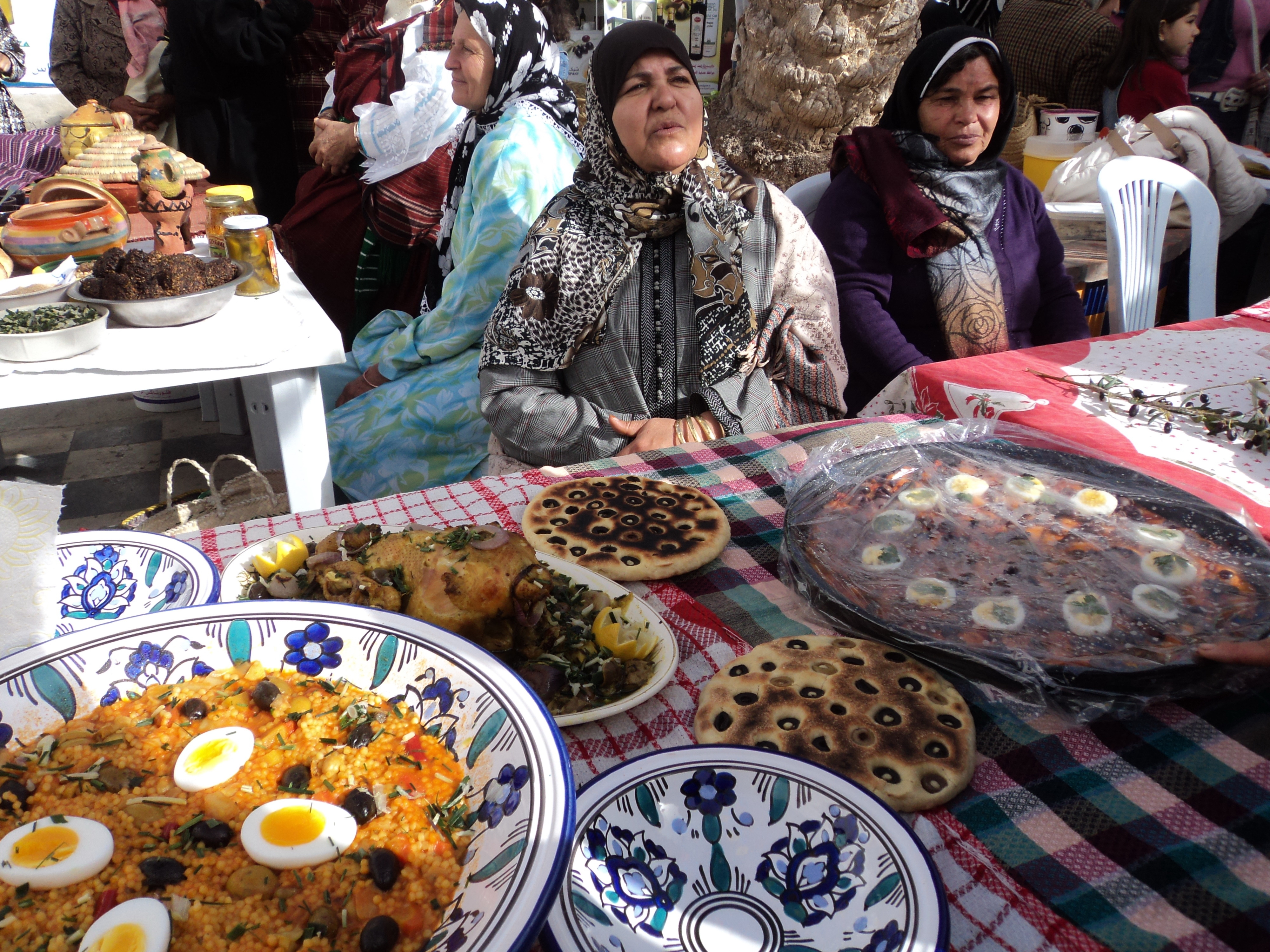 l'histoire en français